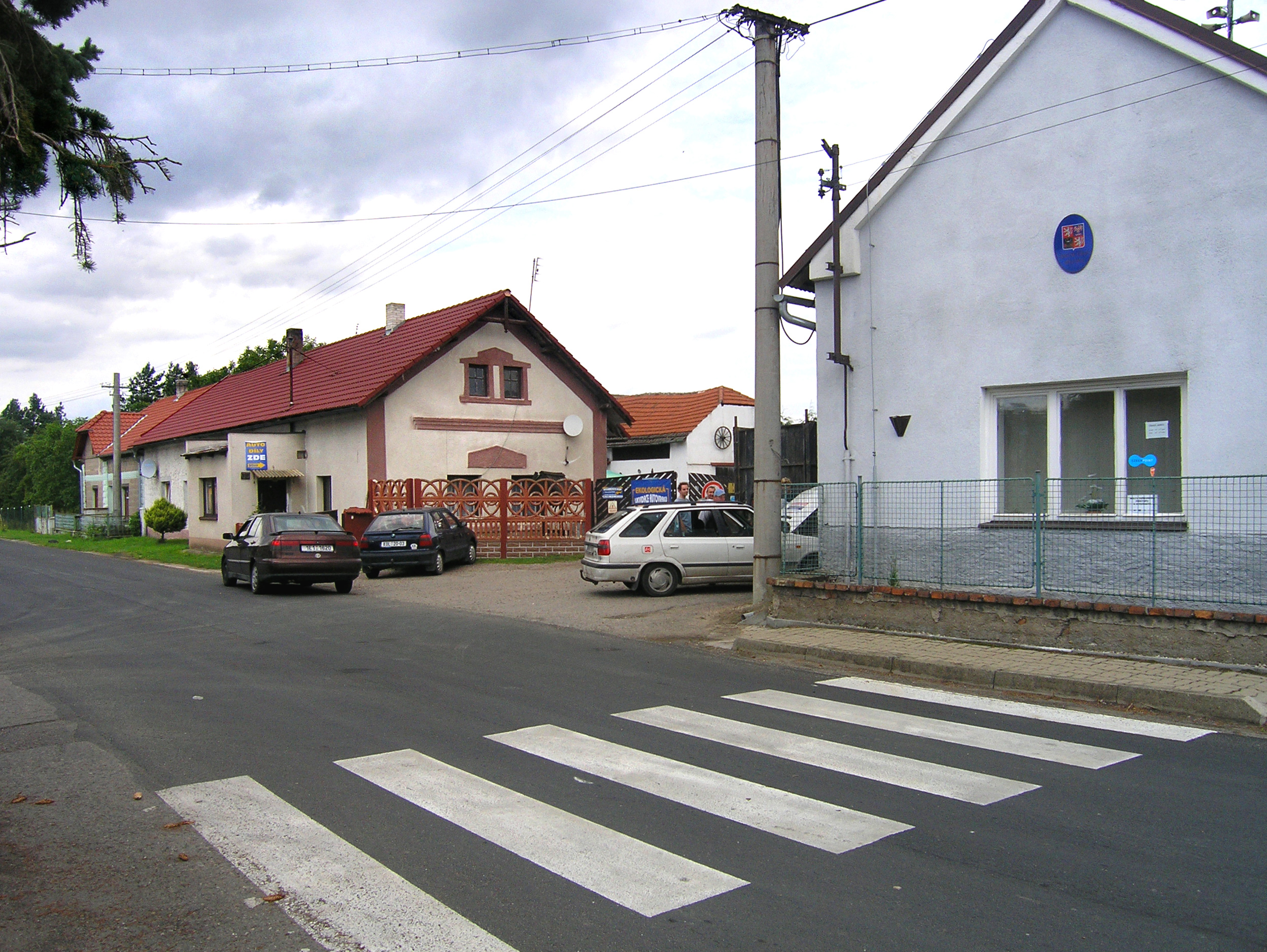 Municipally office in Bělušice village, Czech Republic